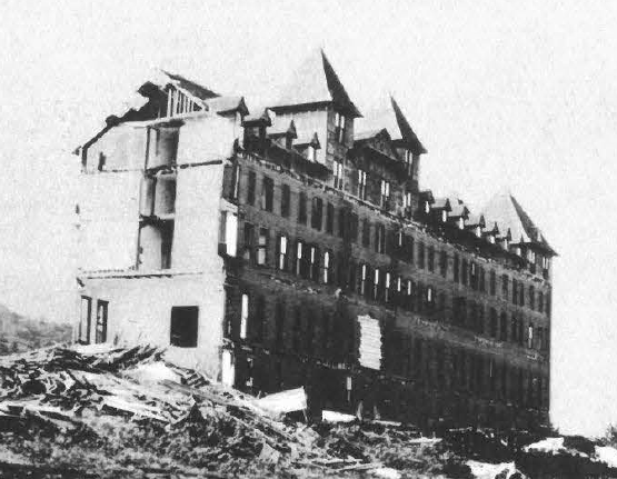 Prospect House 1915 demolition